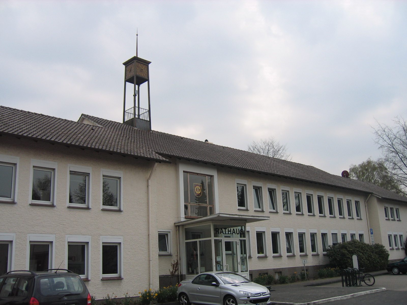 Spenge, District of Herford, North Rhine-Westphalia, Germany.